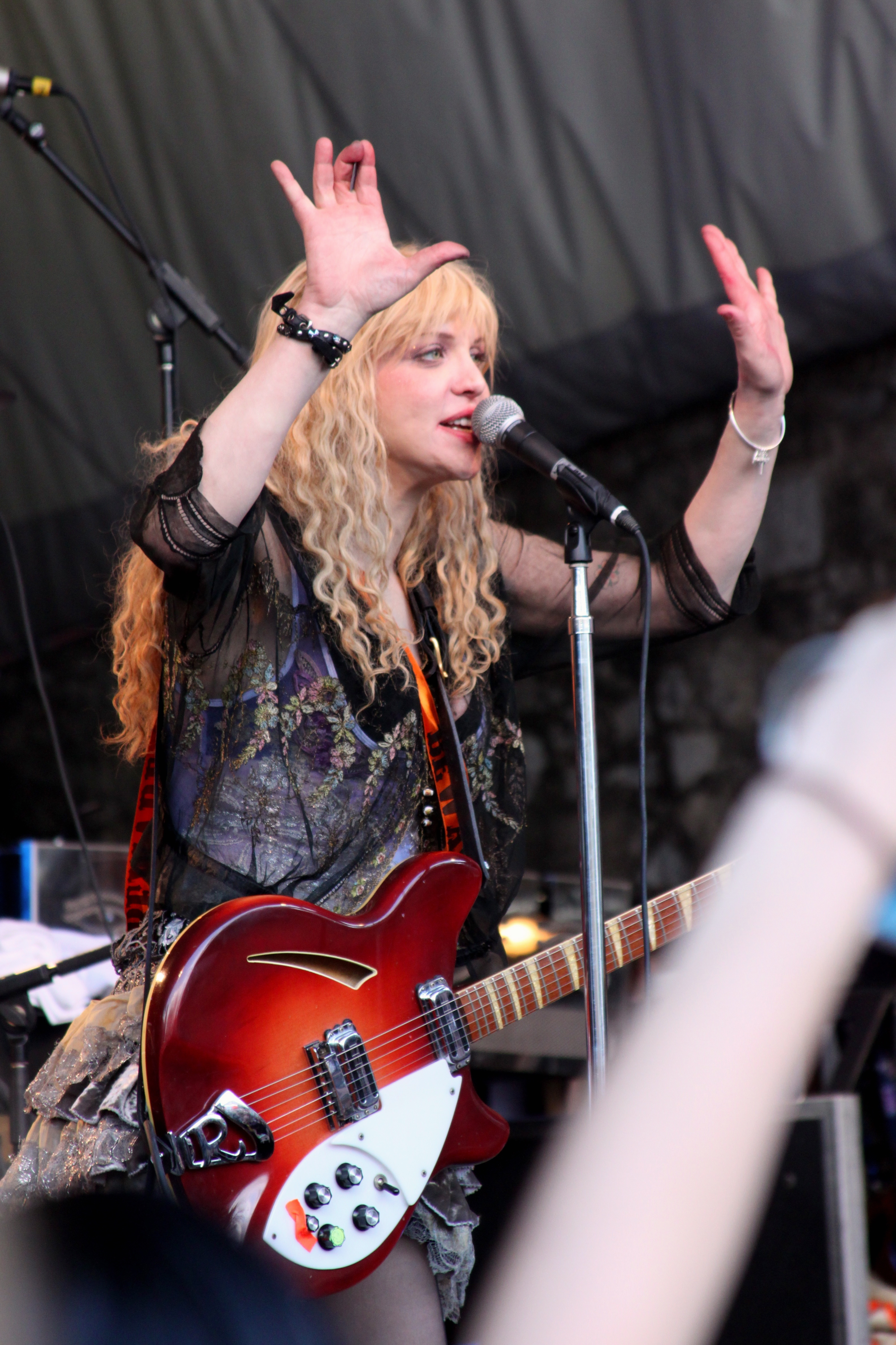 Courtney Love at South By Southwest, 2010.